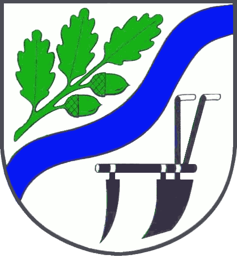 Coat of arms of the municipality Wallsbüll in Schleswig-Holstein, Germany.